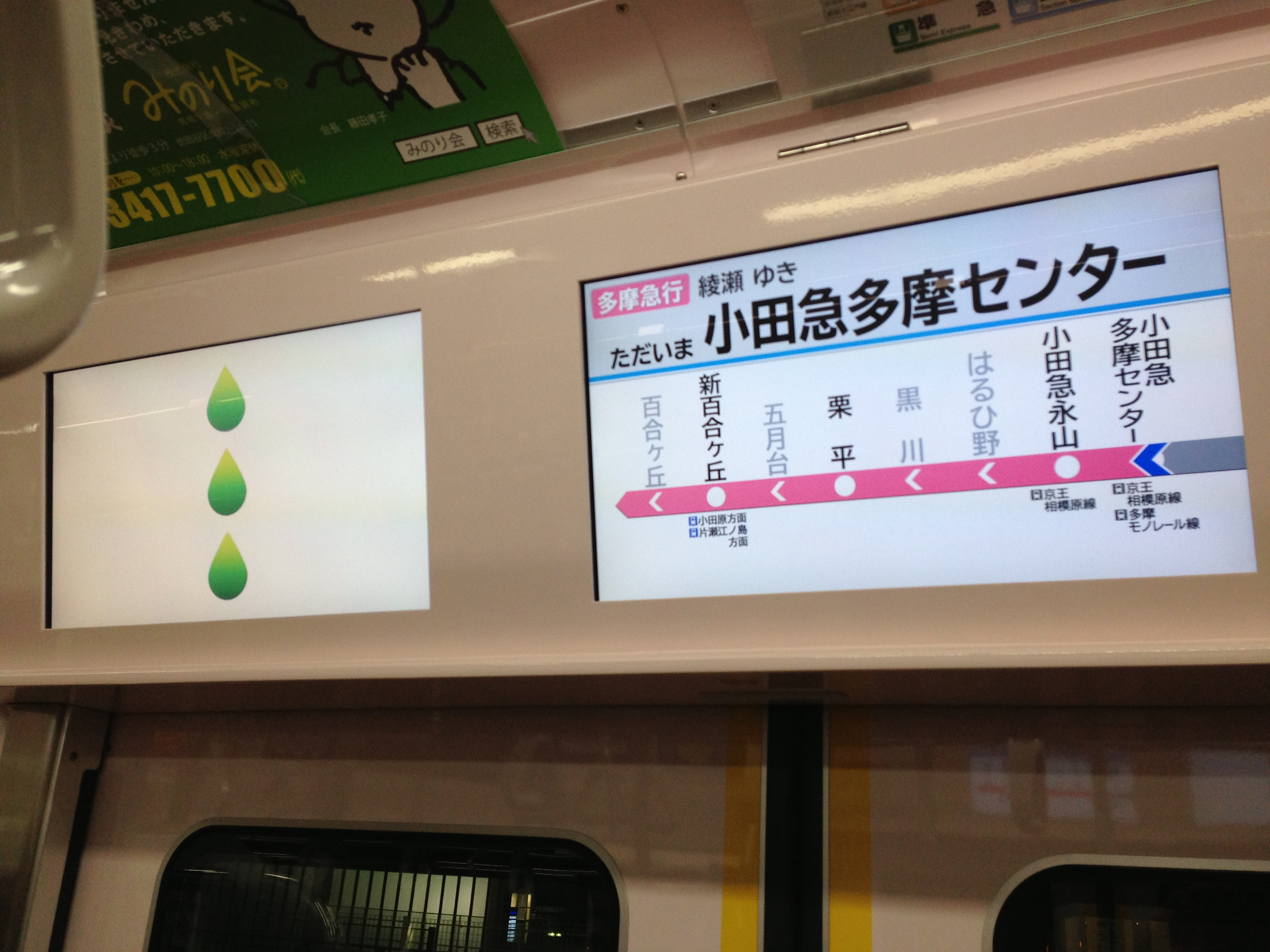 LCD monitors to show train information and advertisement on Odakyu unit 4065 x 10